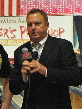 American ten-pin bowler and sports commentator Randy Pedersen on August 20, 2017 in Middletown, Delaware, U.S.